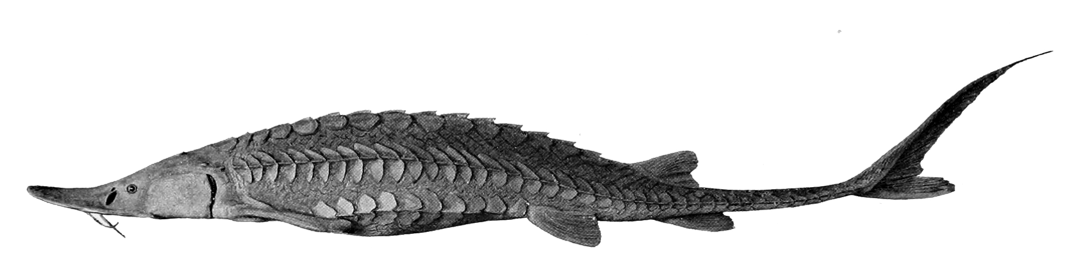 Scaphirhynchus platorynchus